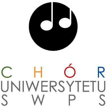 Organizacje studenckie SWPS